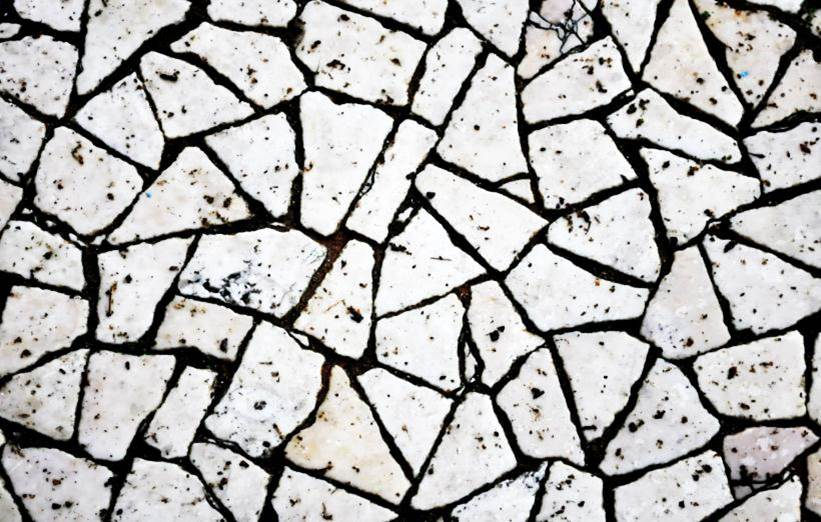 calçada à portuguesa